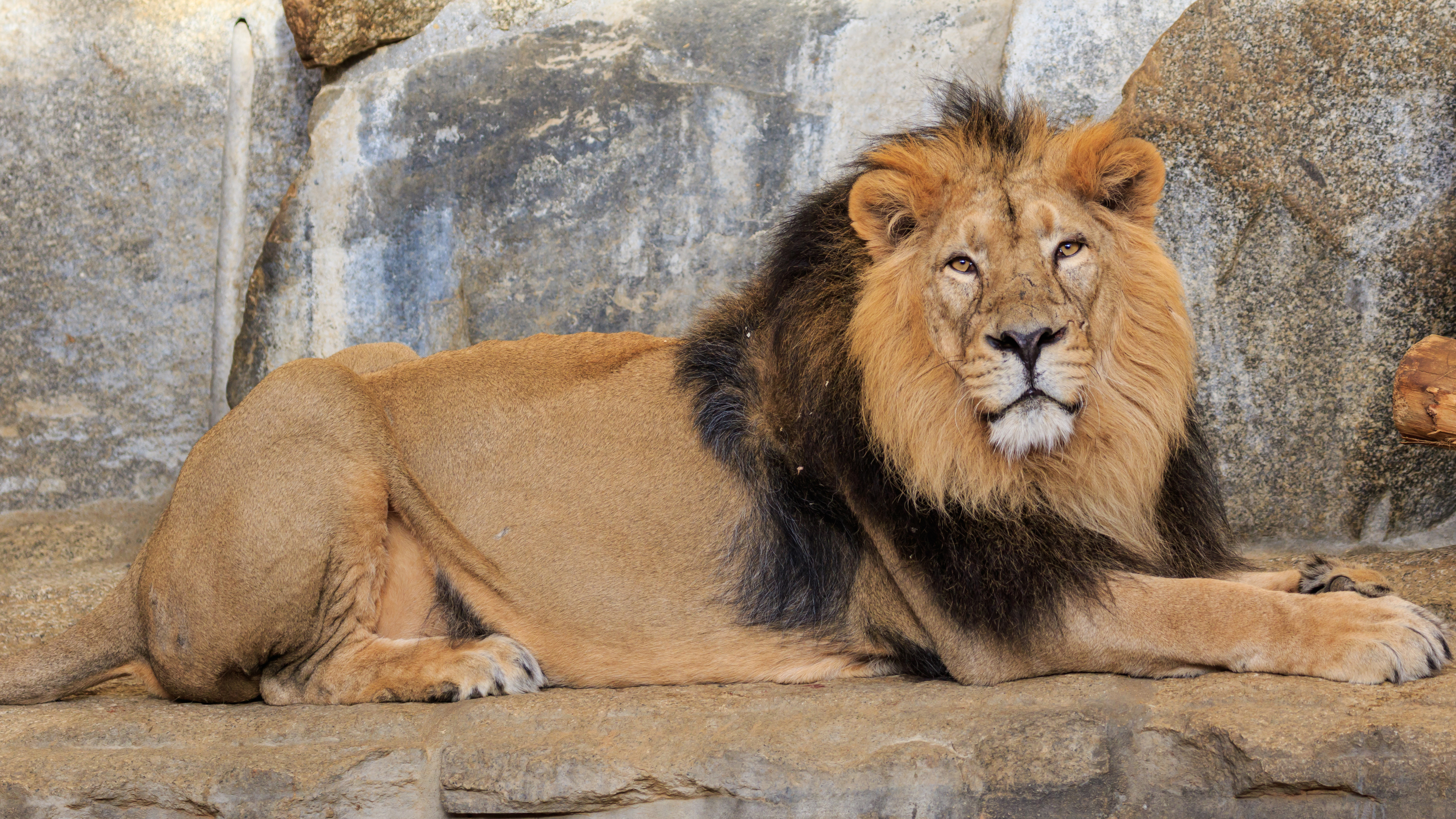 An Indian lion in the Berlin Tierpark (Friedrichsfelde zoo)